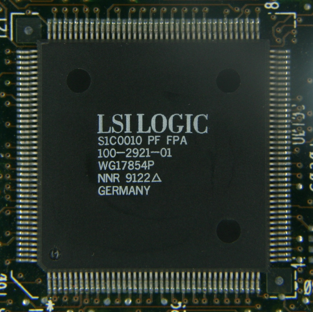 IC photo